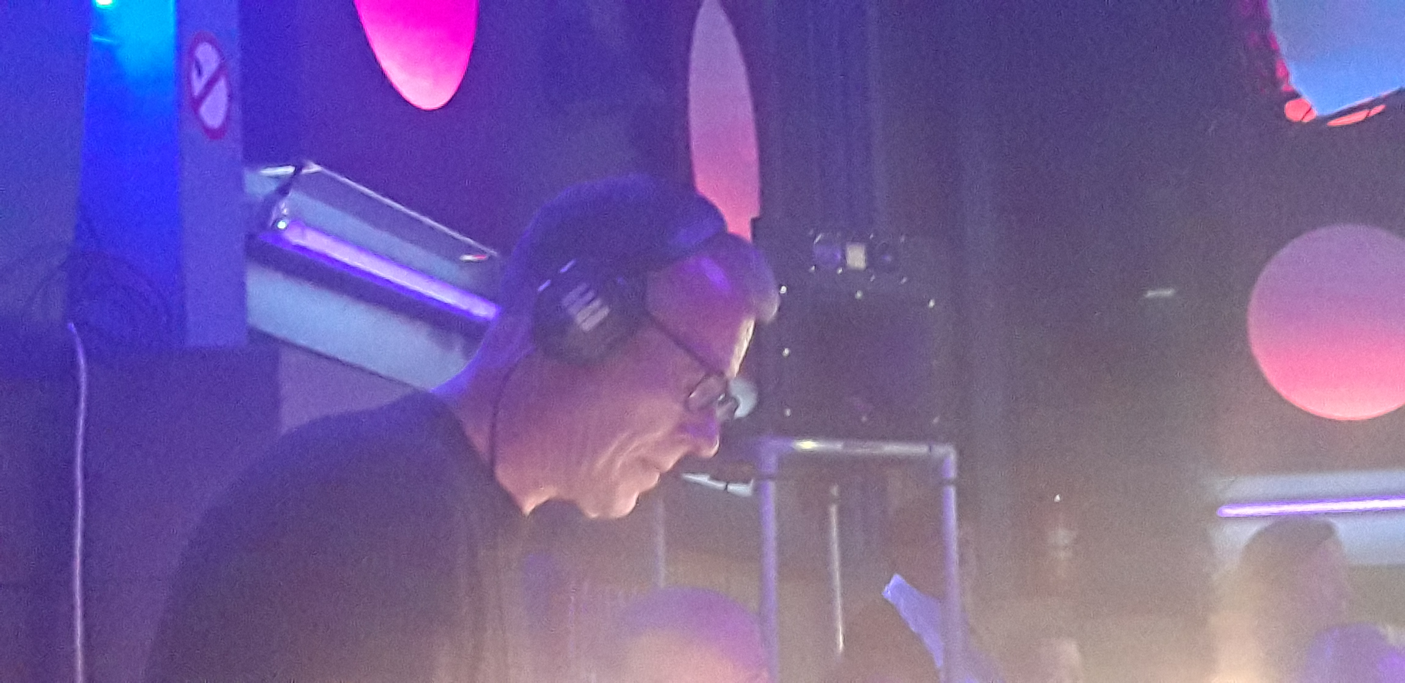 Serge Ramaekers in 2019